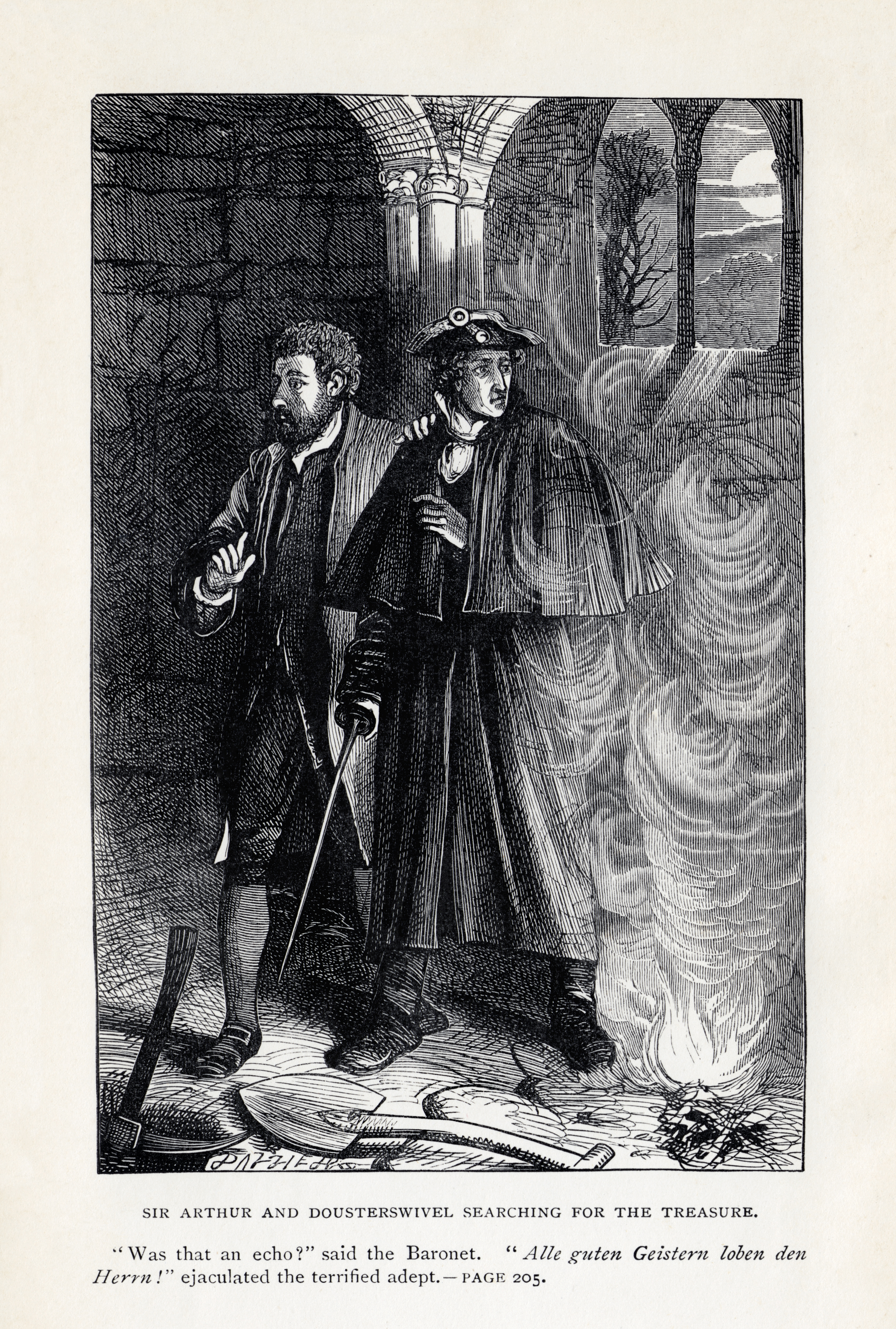 "Sir Arthur and Dousterswivel Searching for the Treasure", by the Dalziel Brothers, after Sir Walter Scott's The Antiquary